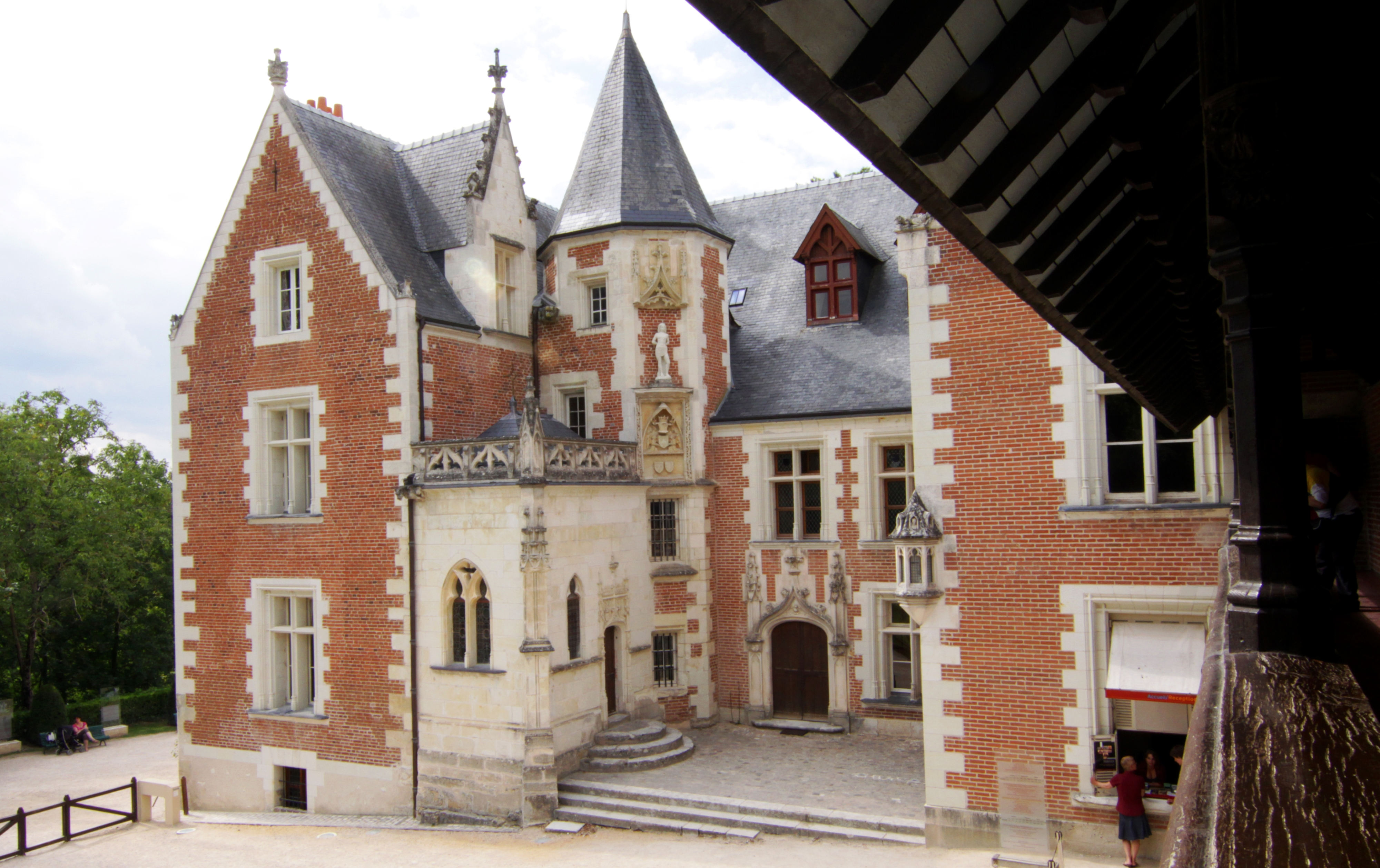 Entrance of Clos Lucé castle. Loire castle, Amboise, France.